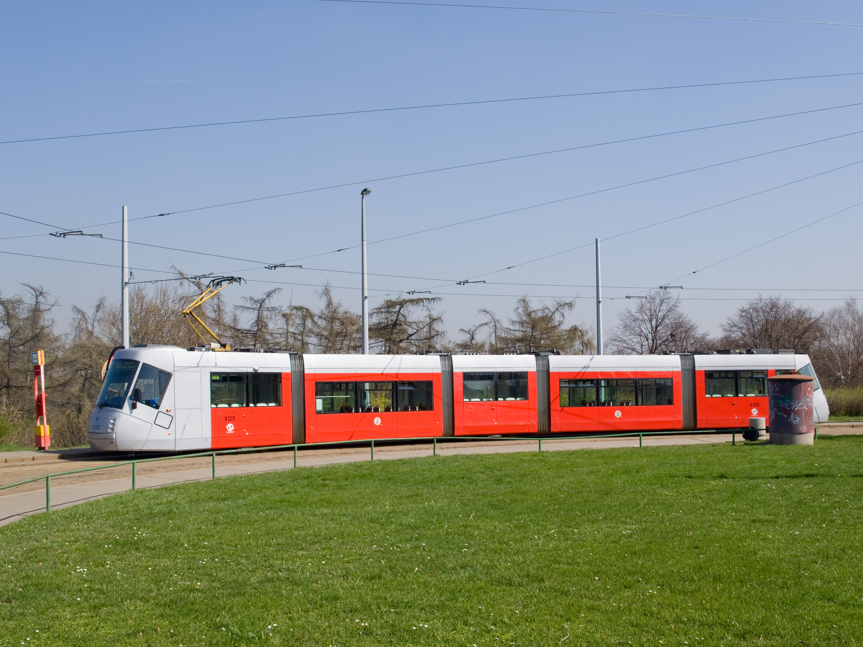 Škoda 14T at tram loop Divoká Šárka